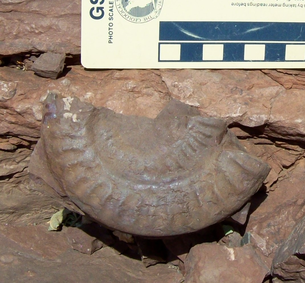 Specimen of Hildoceras sublevisoni. From Lombardy (Northern Italy). Rosso Ammonitico Lombardo.